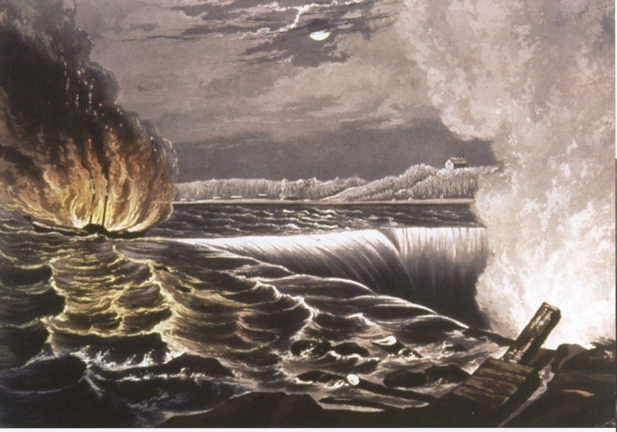 The destruction of the Caroline steamboat by fire, on the Falls of Niagara, Upper Canada, on the night of Friday the 29th Decr. 1837 by George Tattersall